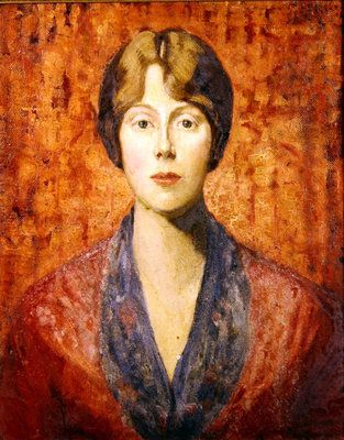 Portrait of Dorothy Warren Wall Art & Canvas Prints by Glyn Warren Philpot